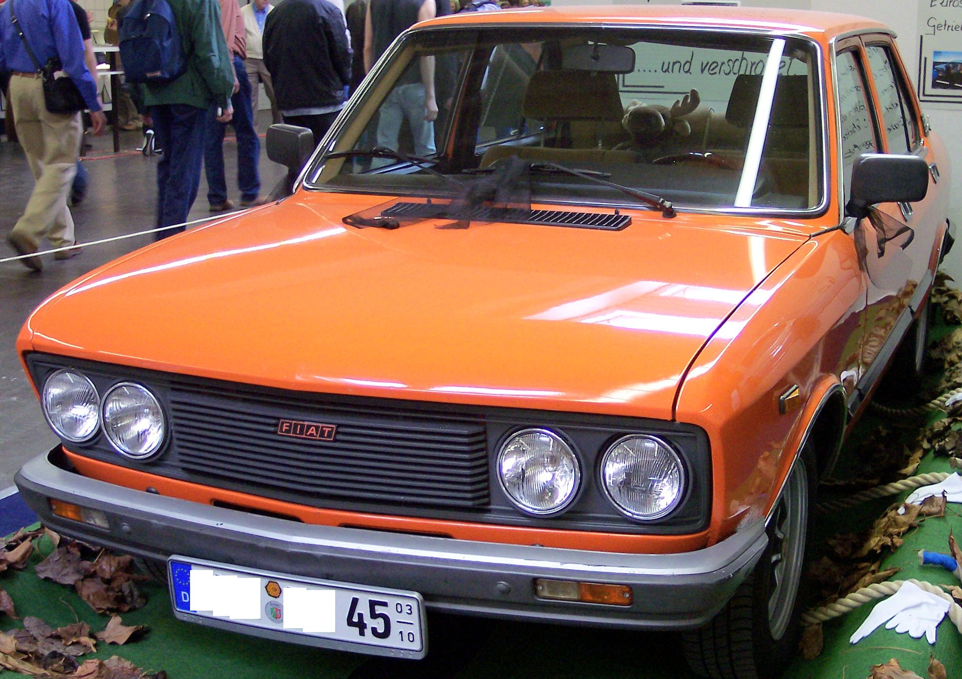 Fiat 132